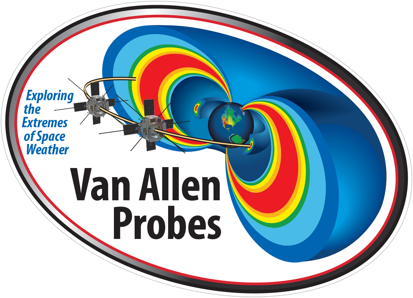 This is the logo for the Van Allen Probes, formerly known as the Radiation Belt Storm Probes.